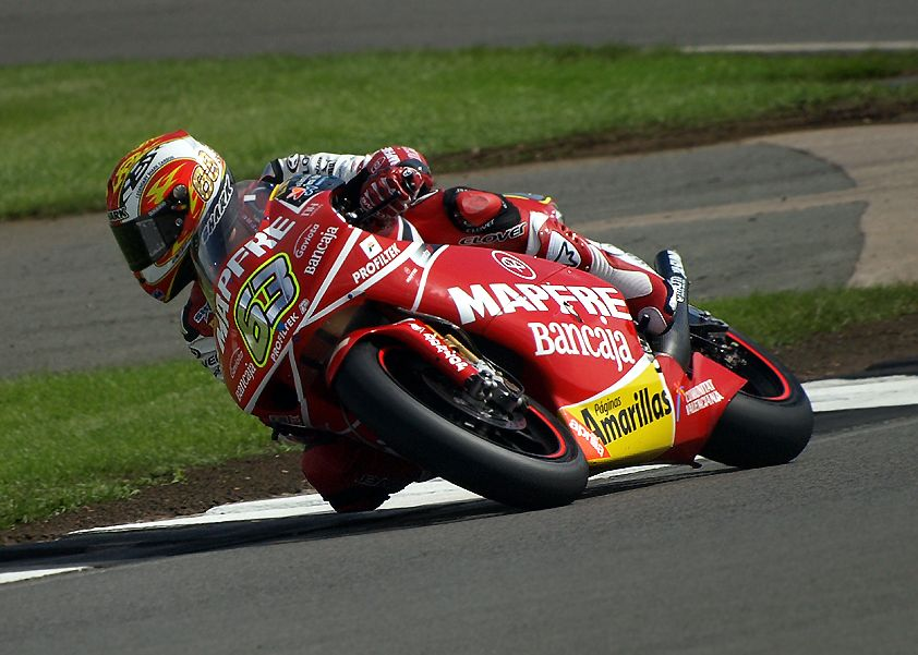 Mike Di Meglio, Mapfre Aspar Team 250cc